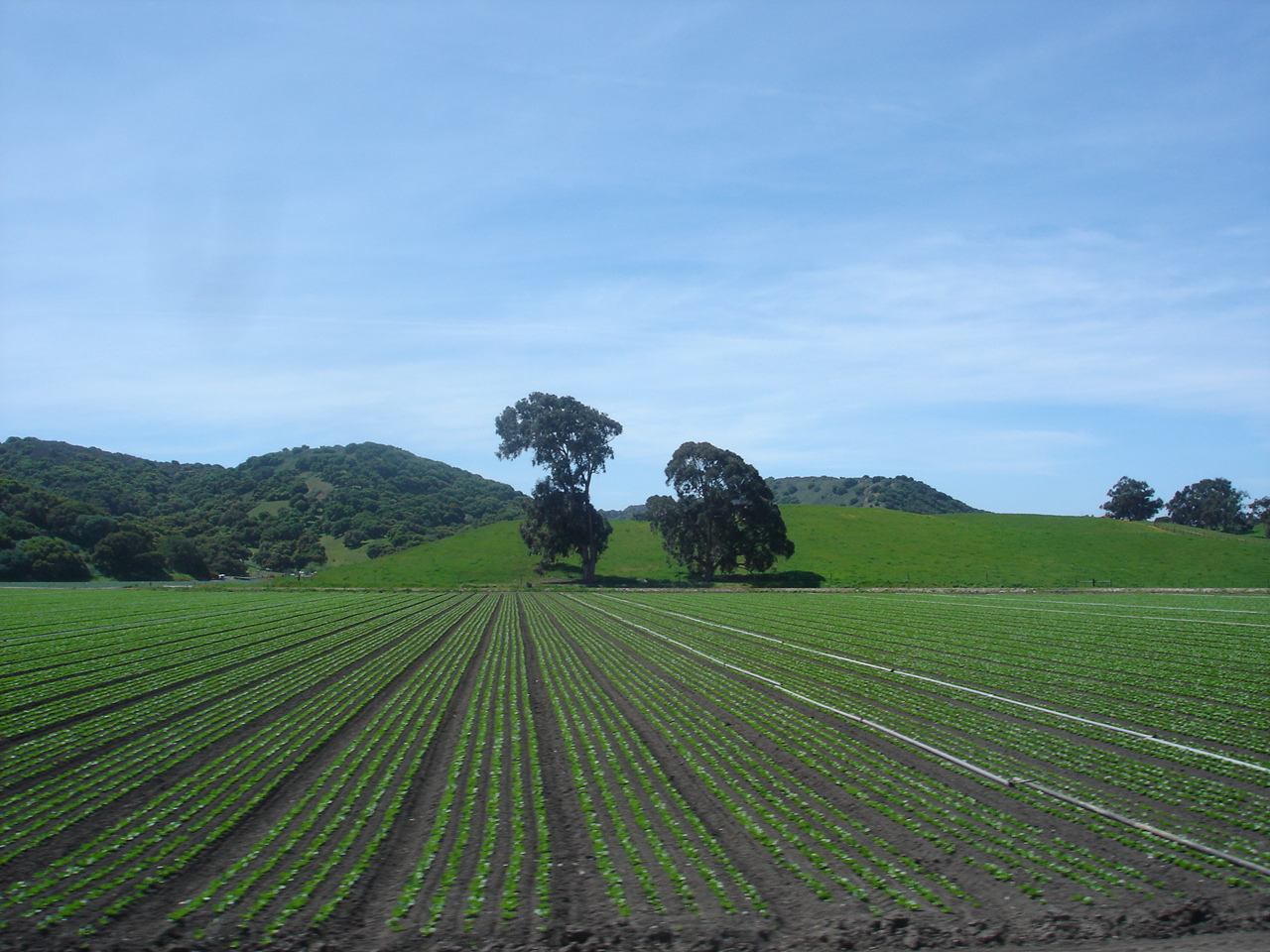 Fields near Greenfield, California.